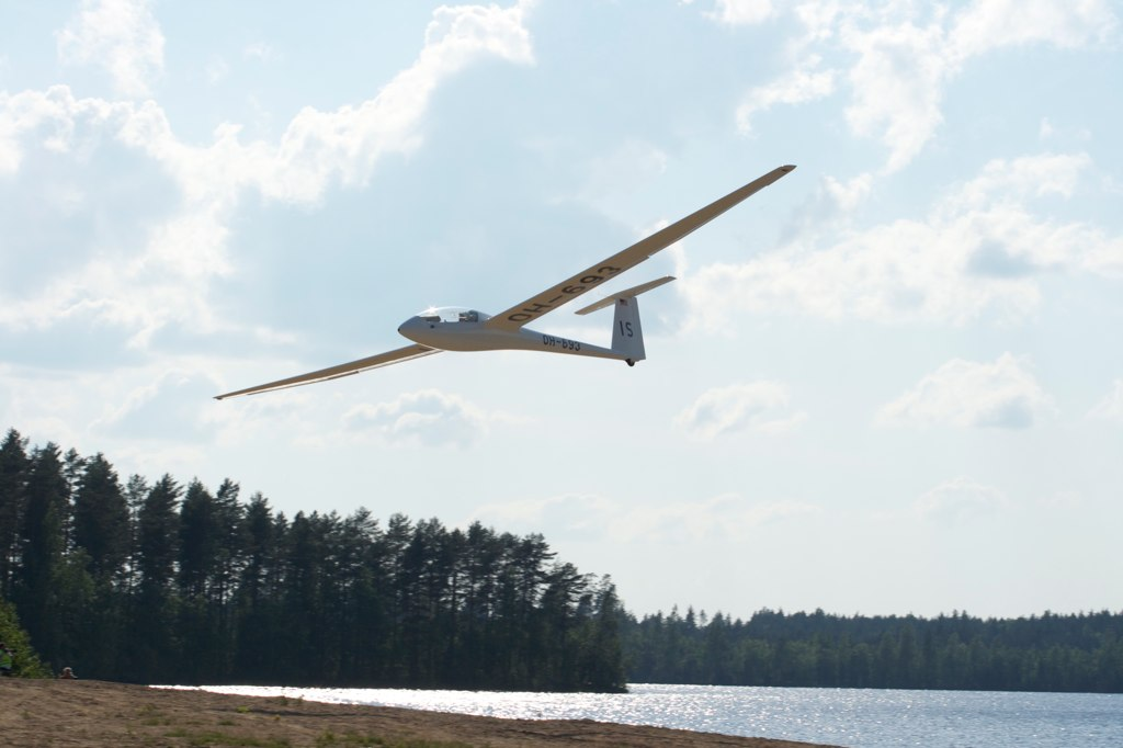 Rolladen-Schneider LS-4a glider (OH-693) in 2009 Junior World Gliding Chamionships at Räyskälä Airfield in Loppi, Tavastia proper, Finland. The lakes name is Särkijärvi